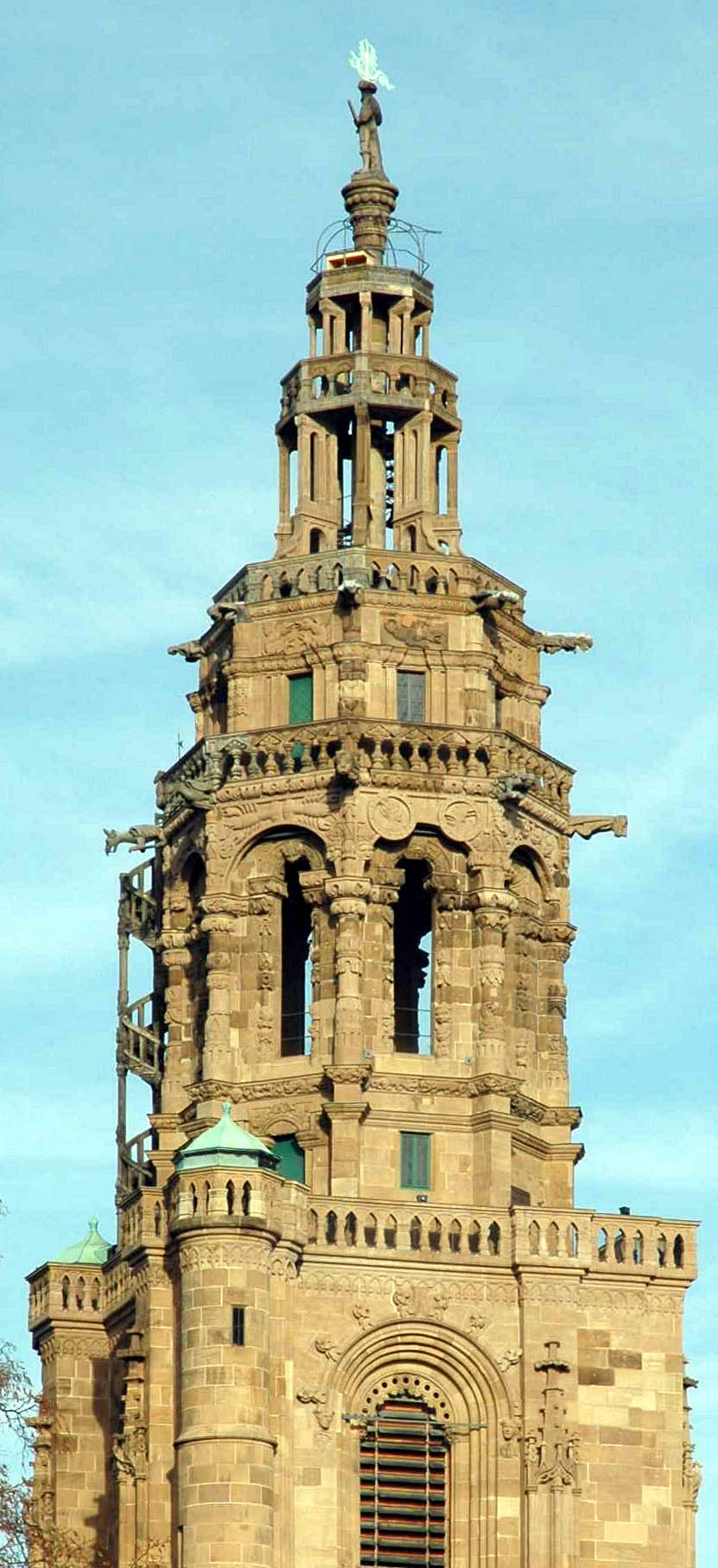 tower of church of St. Kilian in Heilbronn as seen from south.